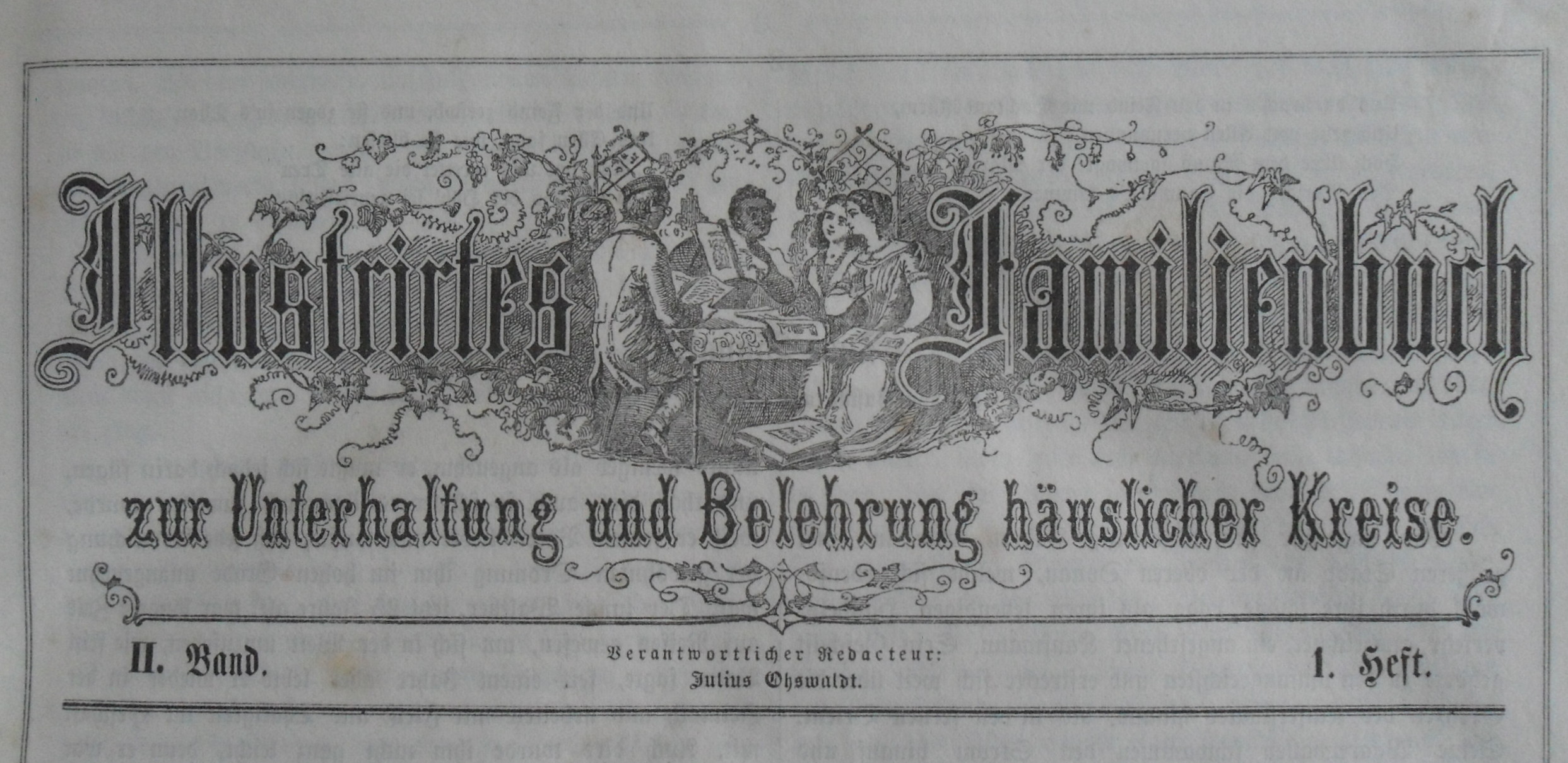 Nameplate of the journal "Familienbuch", Lloyd Triest 1862